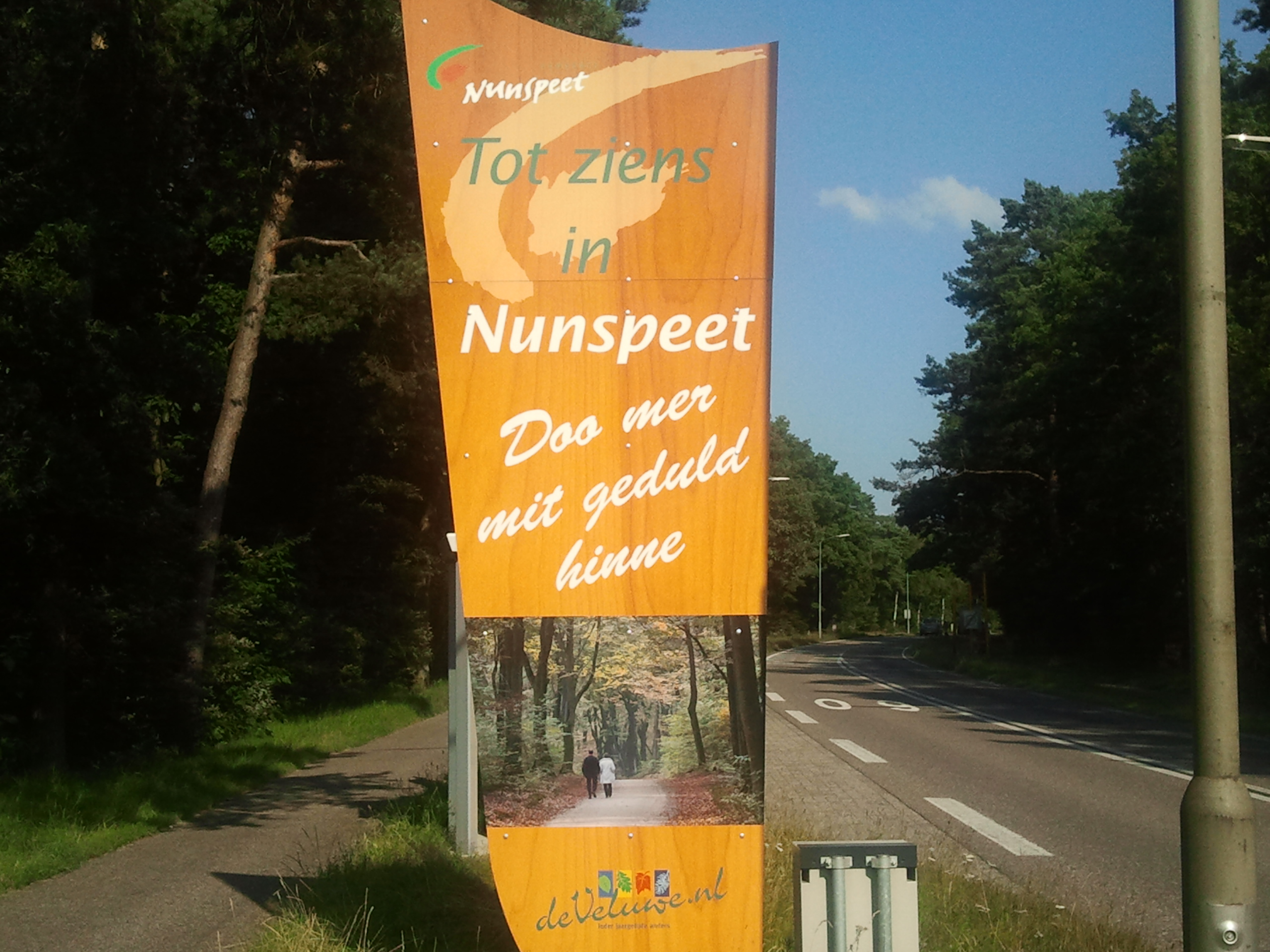 Reverse side of a welcome sign, seen when leaving the municipality of Nunspeet Nedersaksies: Achterkaante van t welkomstbord a'j uut de gemeente Nunspeet vortgaon